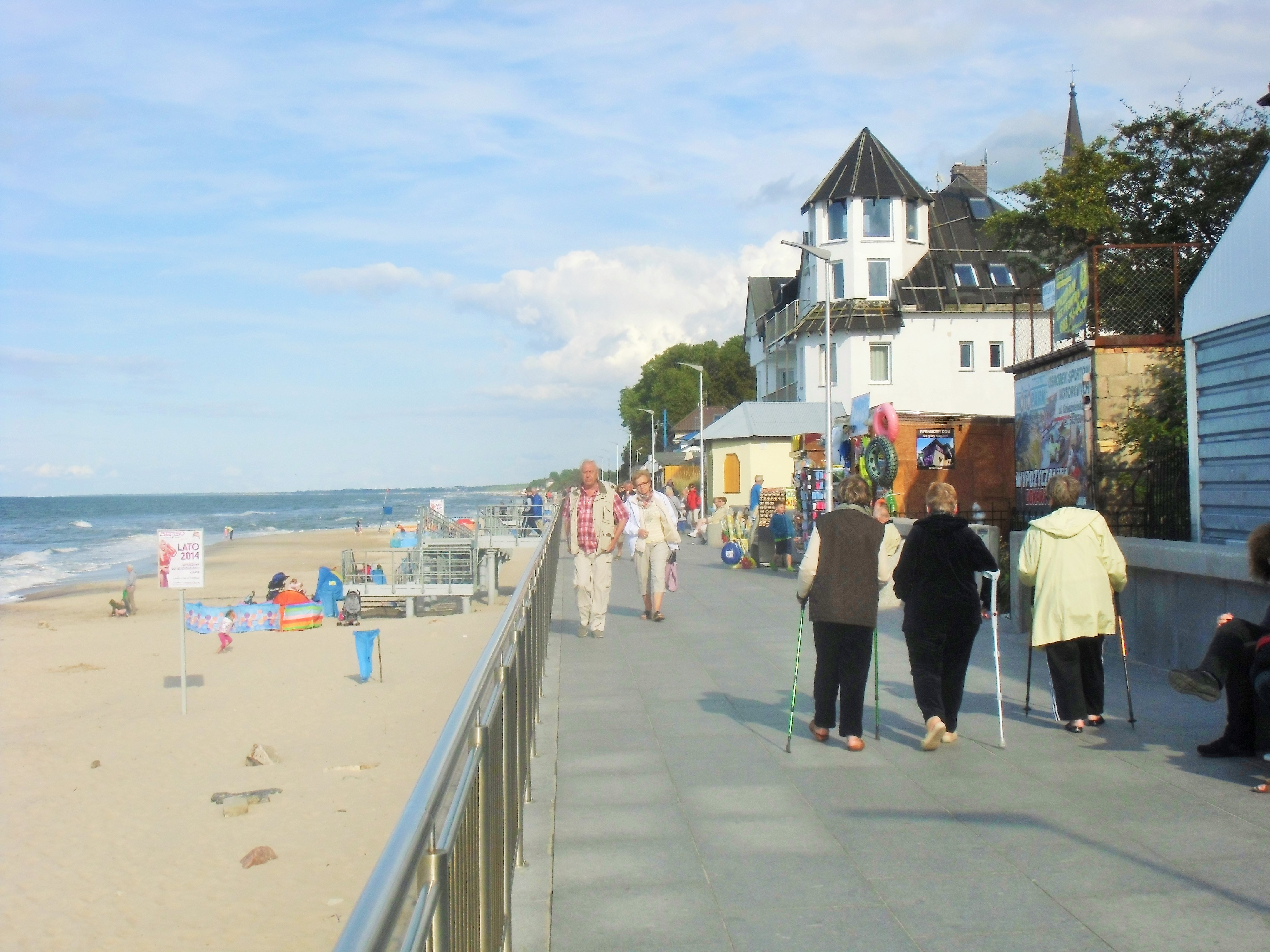 Beach-promenade in Sarbinowo, municipality Mielno, Koszalin County